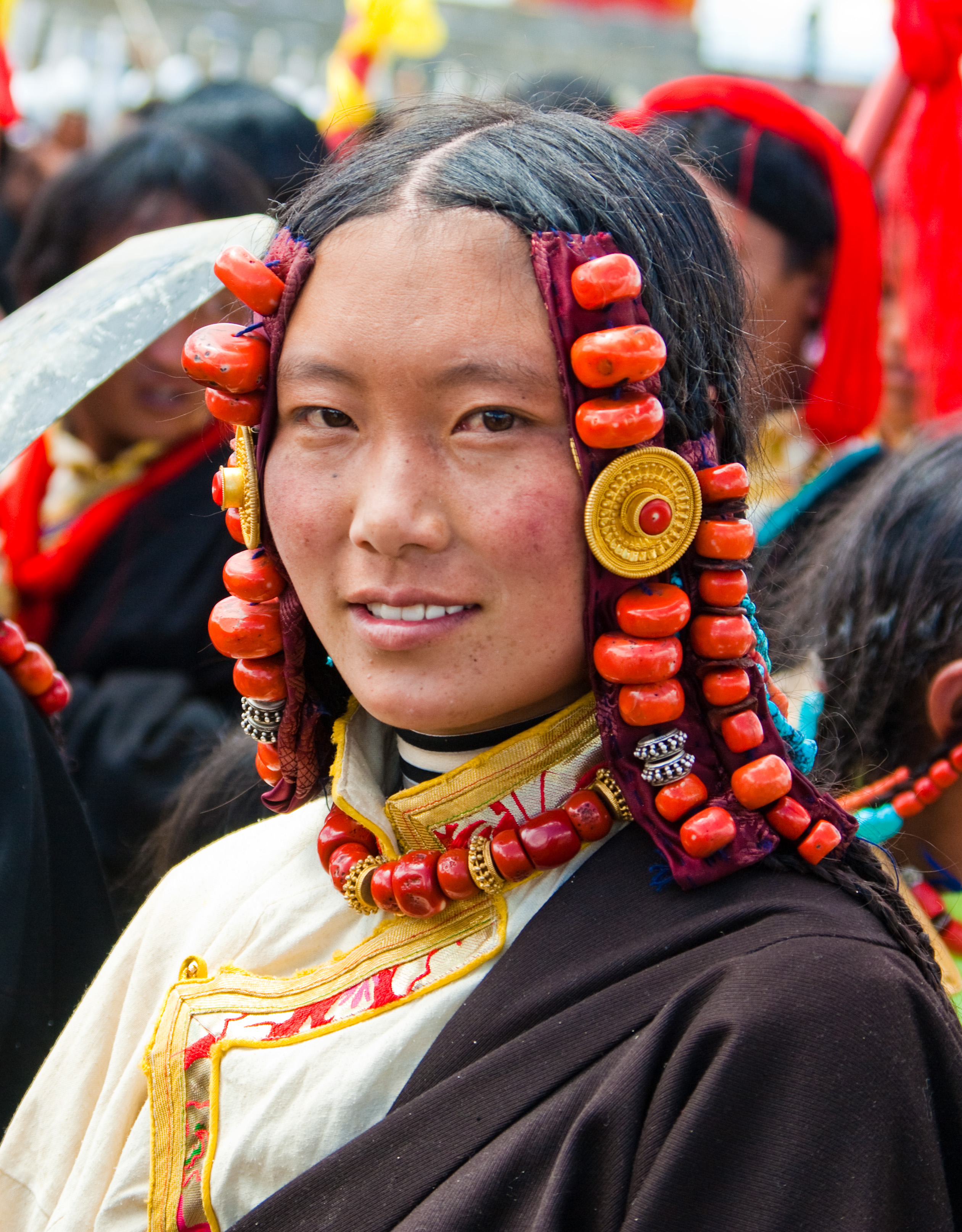 People of Tibet (in Nagqu Horse festival)